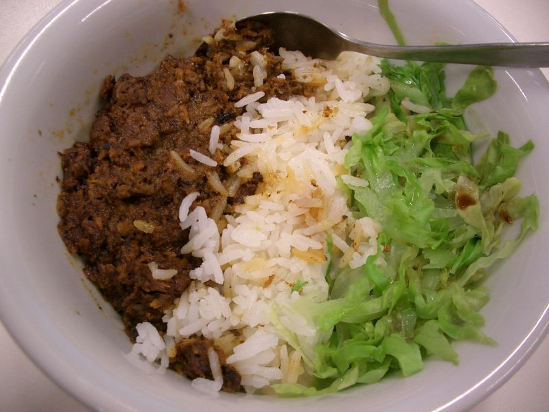 Rendang Lamb made with rendang spice paste from Malaysia. When I first started cooking it, the lemongrass was rather overpowering and too fresh. After simmering for about 30 minutes, all the flavours mellowed and the cloves and cinnamon came to the fore. Excellent spice paste! Close up .